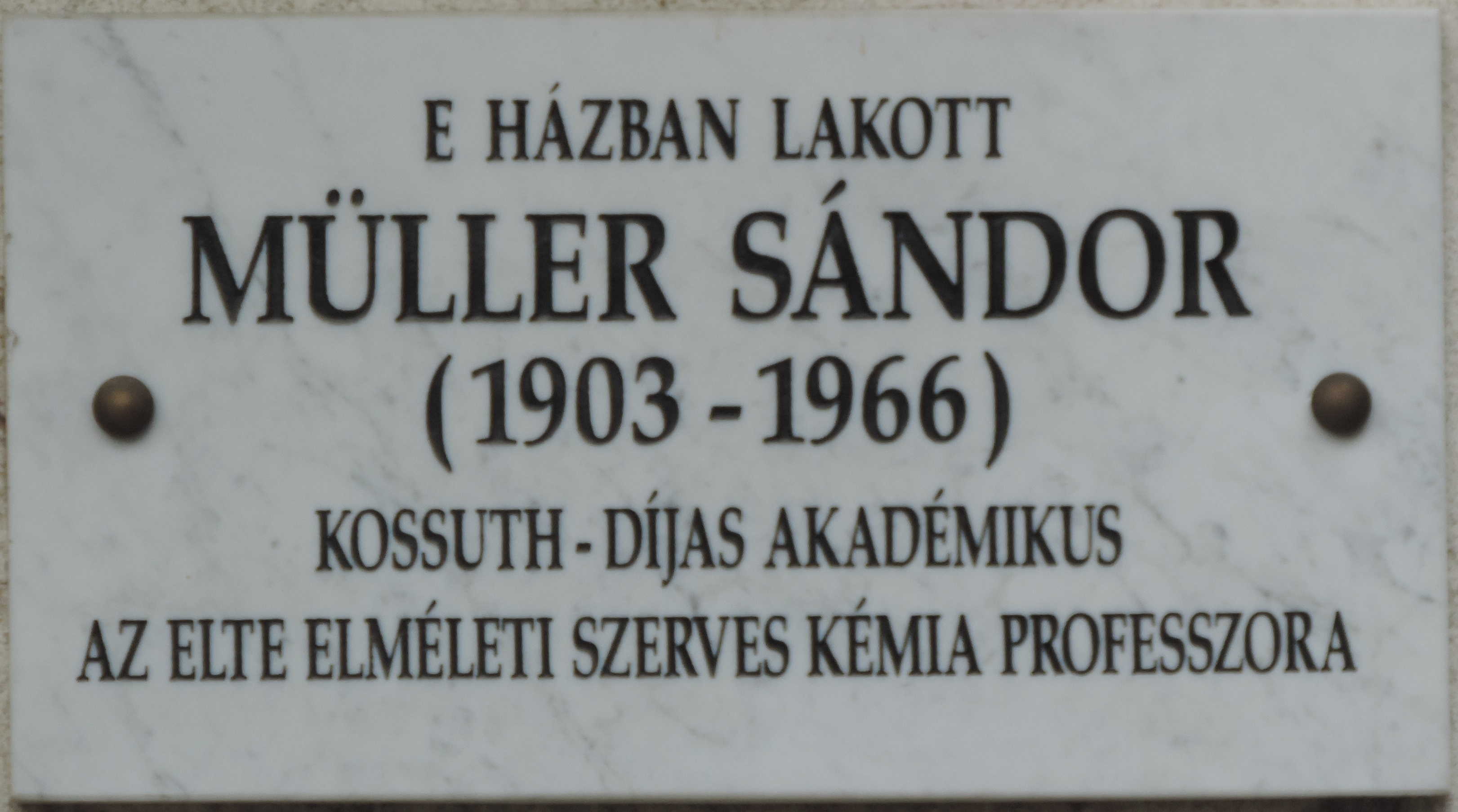 Commemorative plaque to Sándor Müller, Budapest, District II, Pentelei Molnár utca No 3